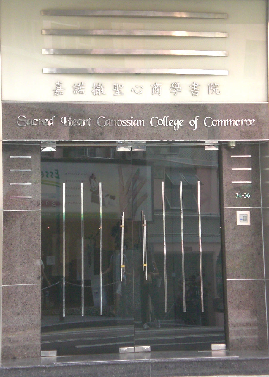 Author= DDMLL 嘉諾撒聖心商學書院, 堅道, Caine Road, Mid-levels, Central, Hong Kong hi... i am jatin yadav from delhi i like read in ahmedabad my meny friends read in hk arts commerce collage and my neeta is my beast friend and snehal and his friends class B.a II years i hope always happy i want to meet soon